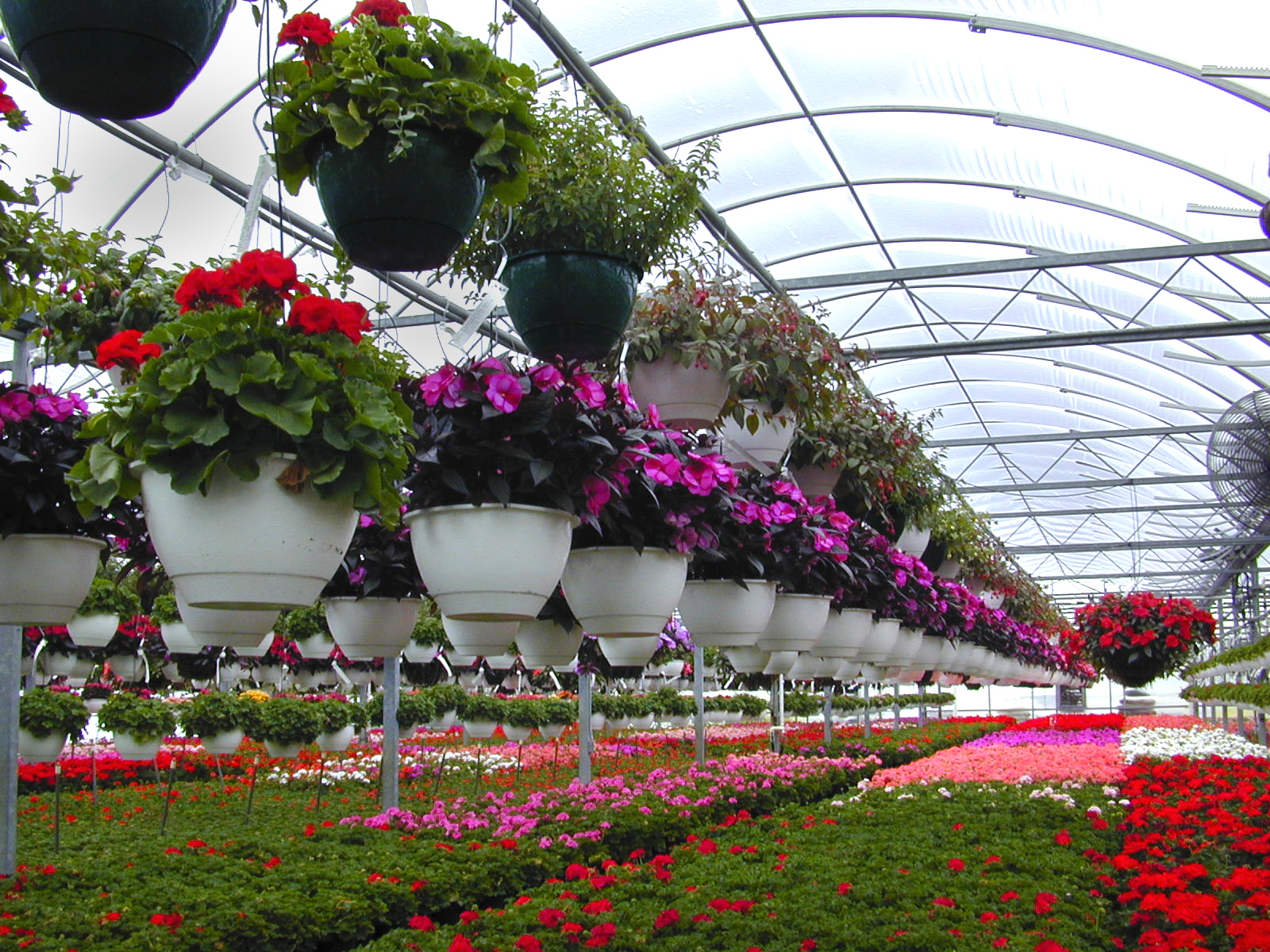 A retail greenhouse section of a production greenhouse facility in northwest Ohio shows some of the diversity of floricultural plants produced in that region.